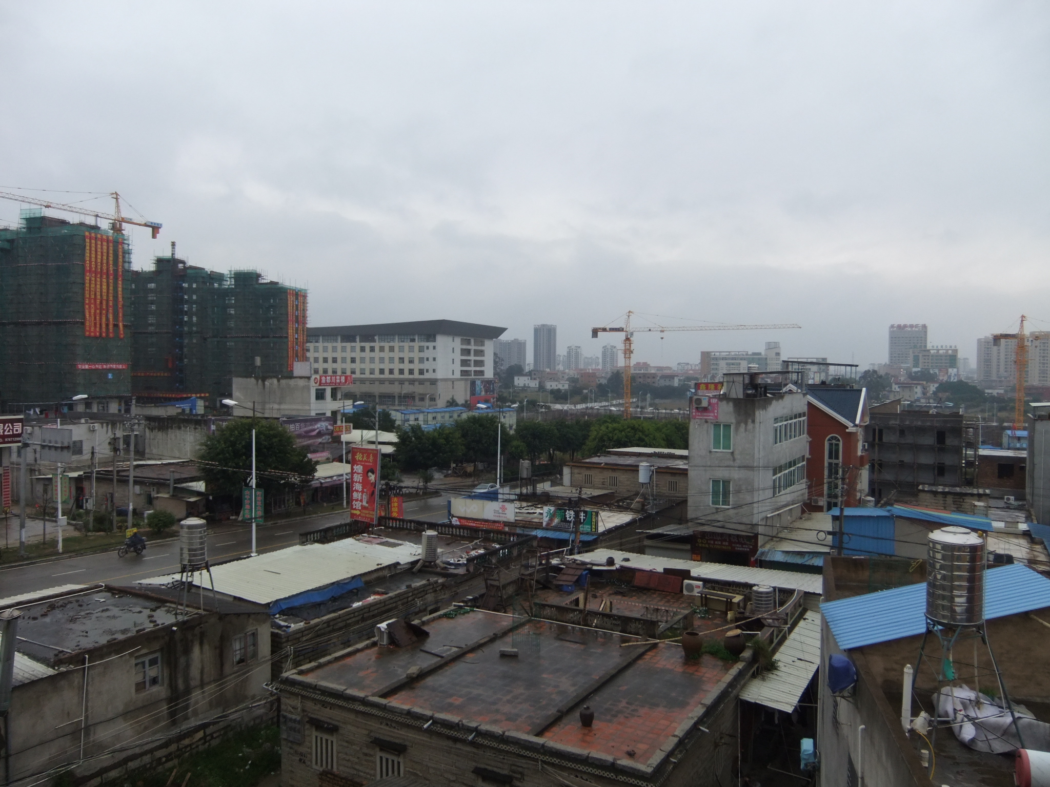 Xindian Town, the central part of Xiang'an District.